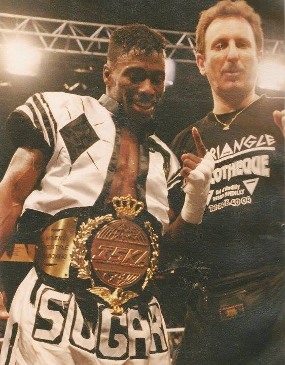 After defeating Dida Diafat in 1996